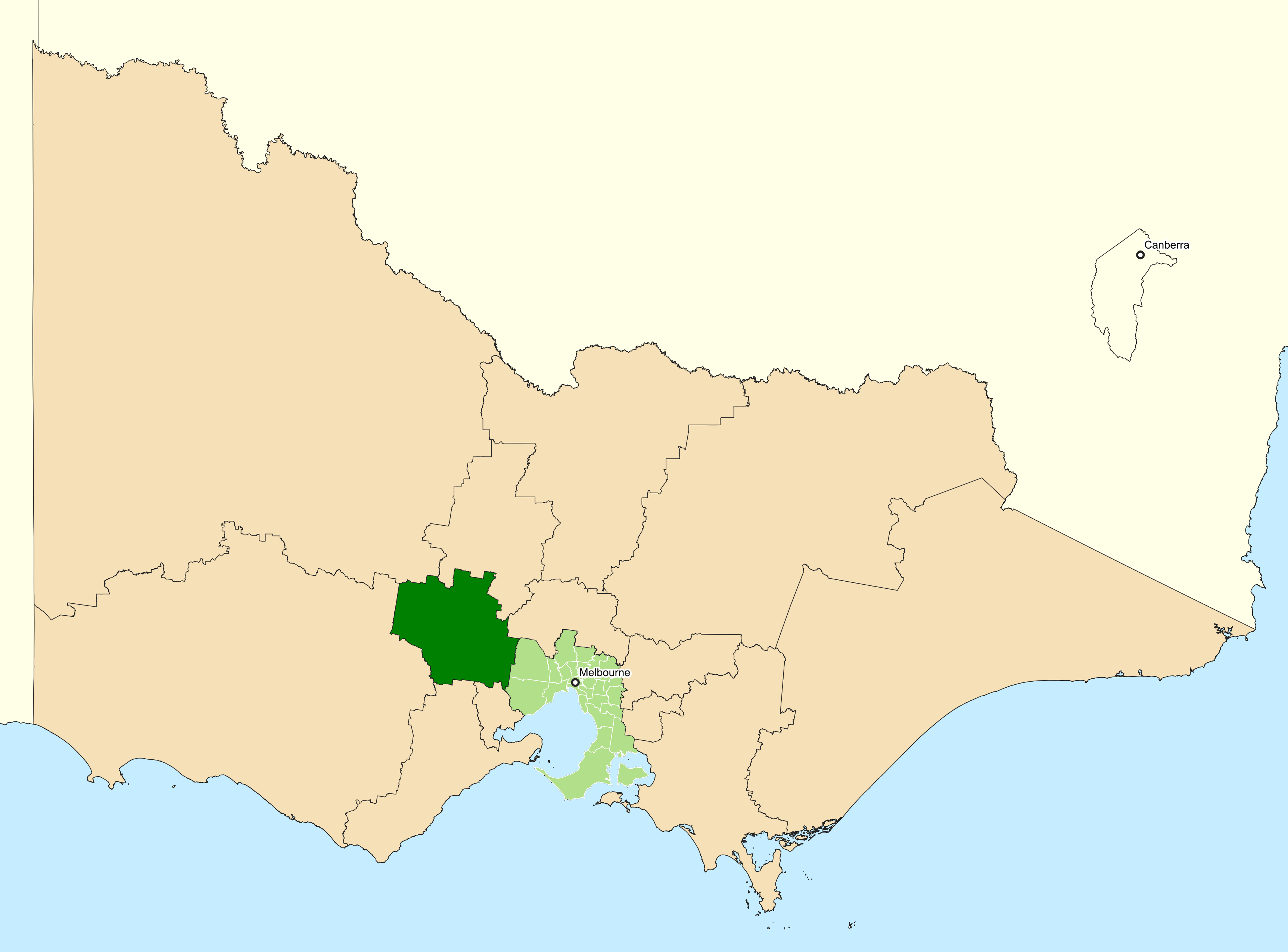 Location of the Australian federal electoral division of Ballarat (dark green) in Victoria as of the 2019 Australian federal election. Incorporates or developed using Administrative Boundaries ©PSMA Australia Limited licensed by the Commonwealth of Australia under Creative Commons Attribution 4.0 International licence (CC BY 4.0).